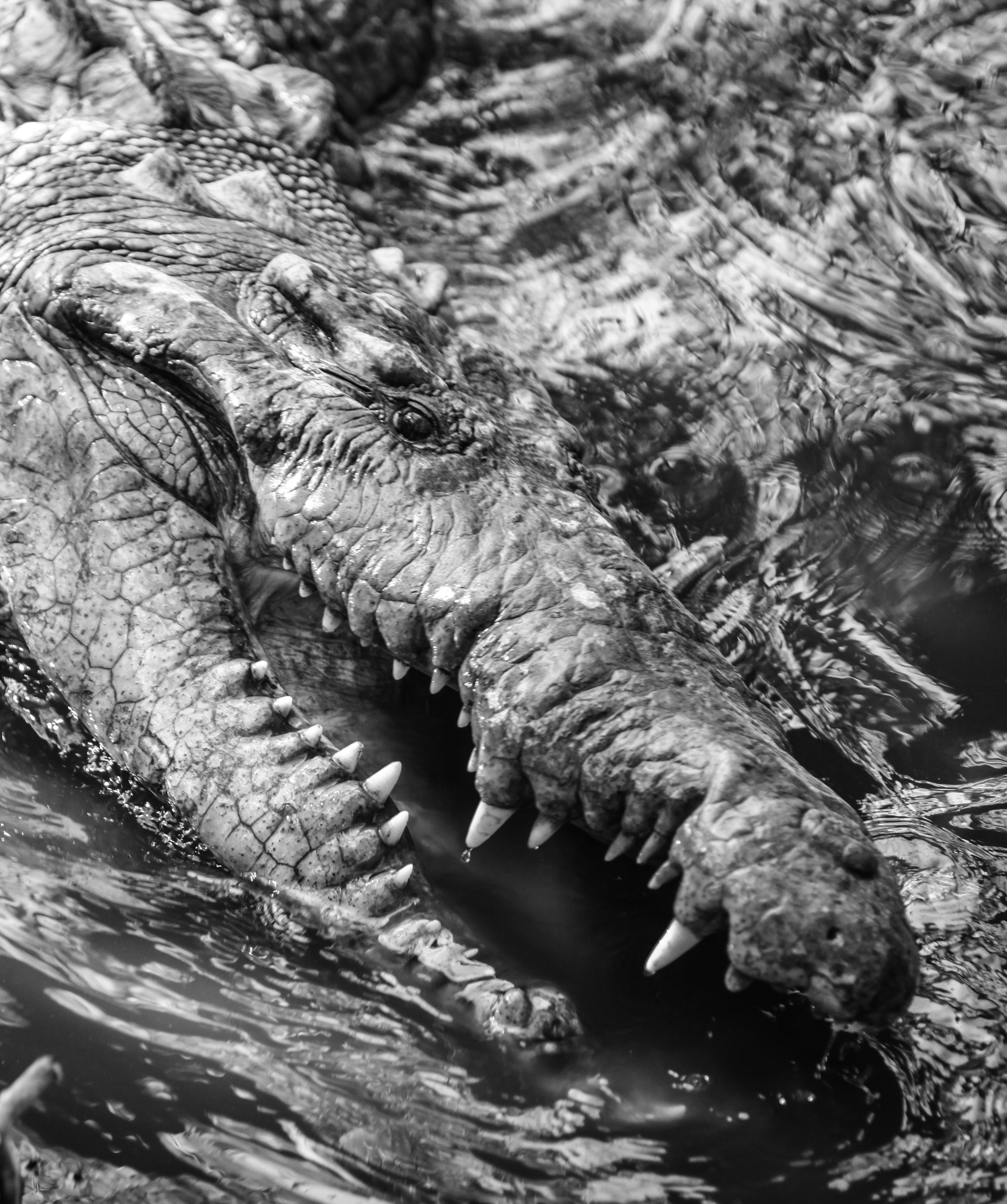 American crocodile in black and white. Taken at La Manzanilla, Jalisco, Mexico, site of a beautiful well preserved mangrove for eco-tourism next to a still-semi-virgin area and cool town to relax, with uncrowded calm beach in Tenacatita Bay. Paradise.